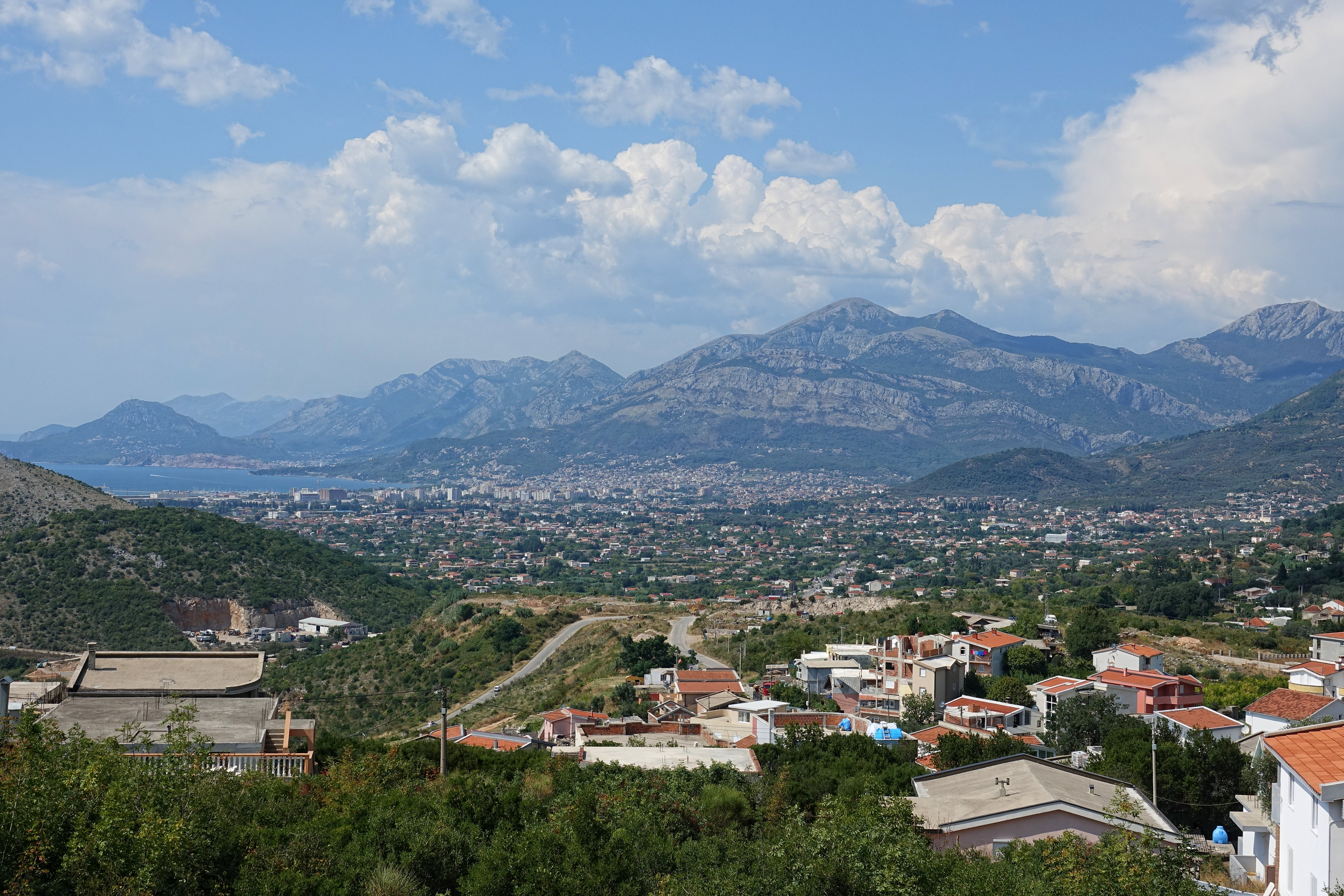 A view of Bar, Montenegro, seen from Dobra Voda. In the background is Mount Vrsuta.